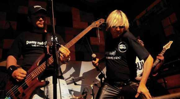 Defekt Muzgó live in Tychy, 2013